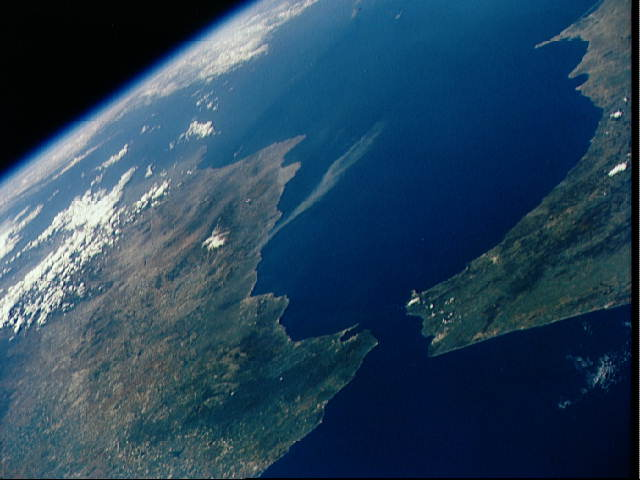 Gibraltar Western Meditteranean from west panorama Spain Morocco from NASA space shuttle misson STS-39. Image ID STS039-10064173.